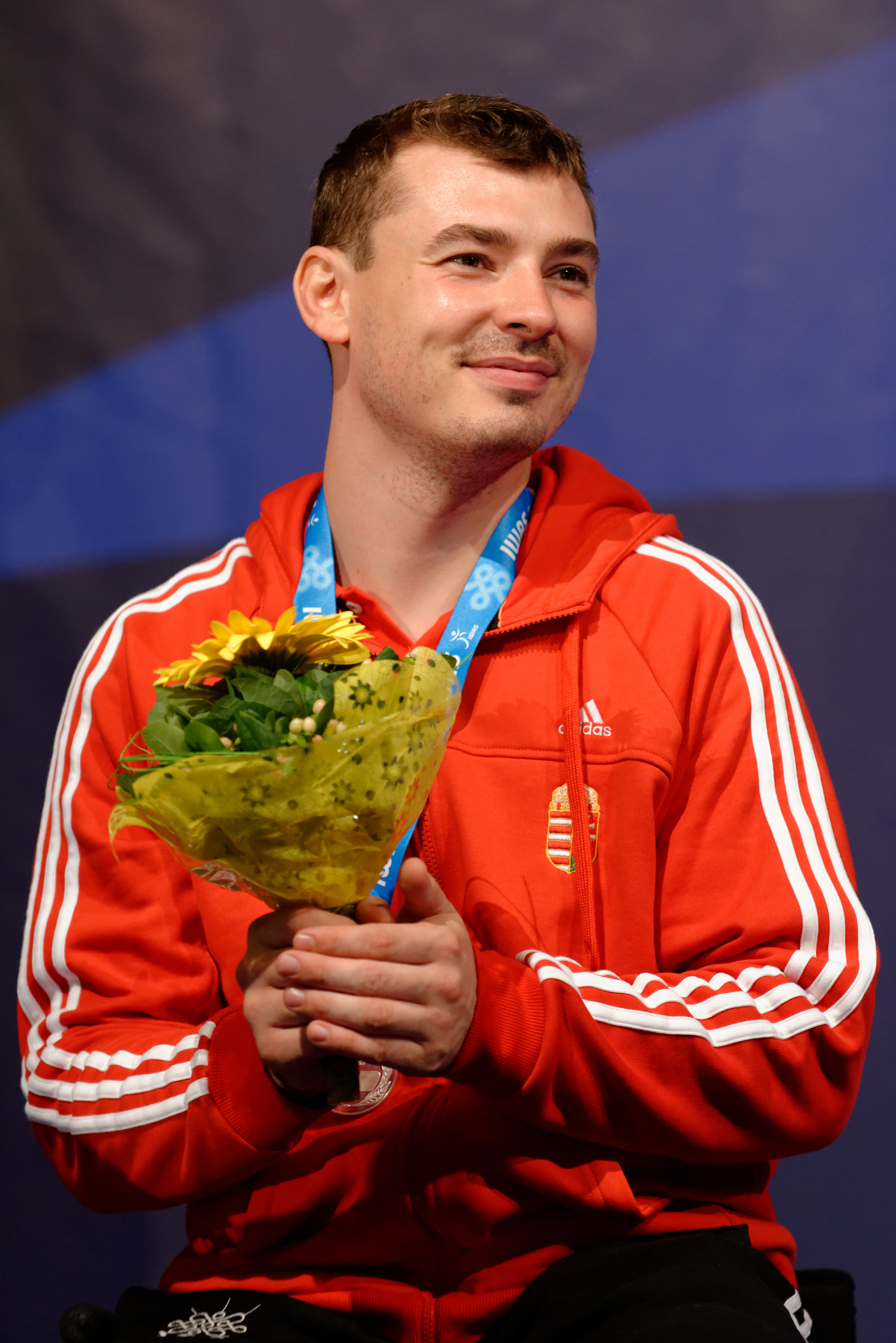 Hungary's Richard Osvath on the podium at the men's foil A award ceremony in the 2013 IWAS World Fencing Championships 2013 at Syma Hall in Budapest on 9 August 2013.